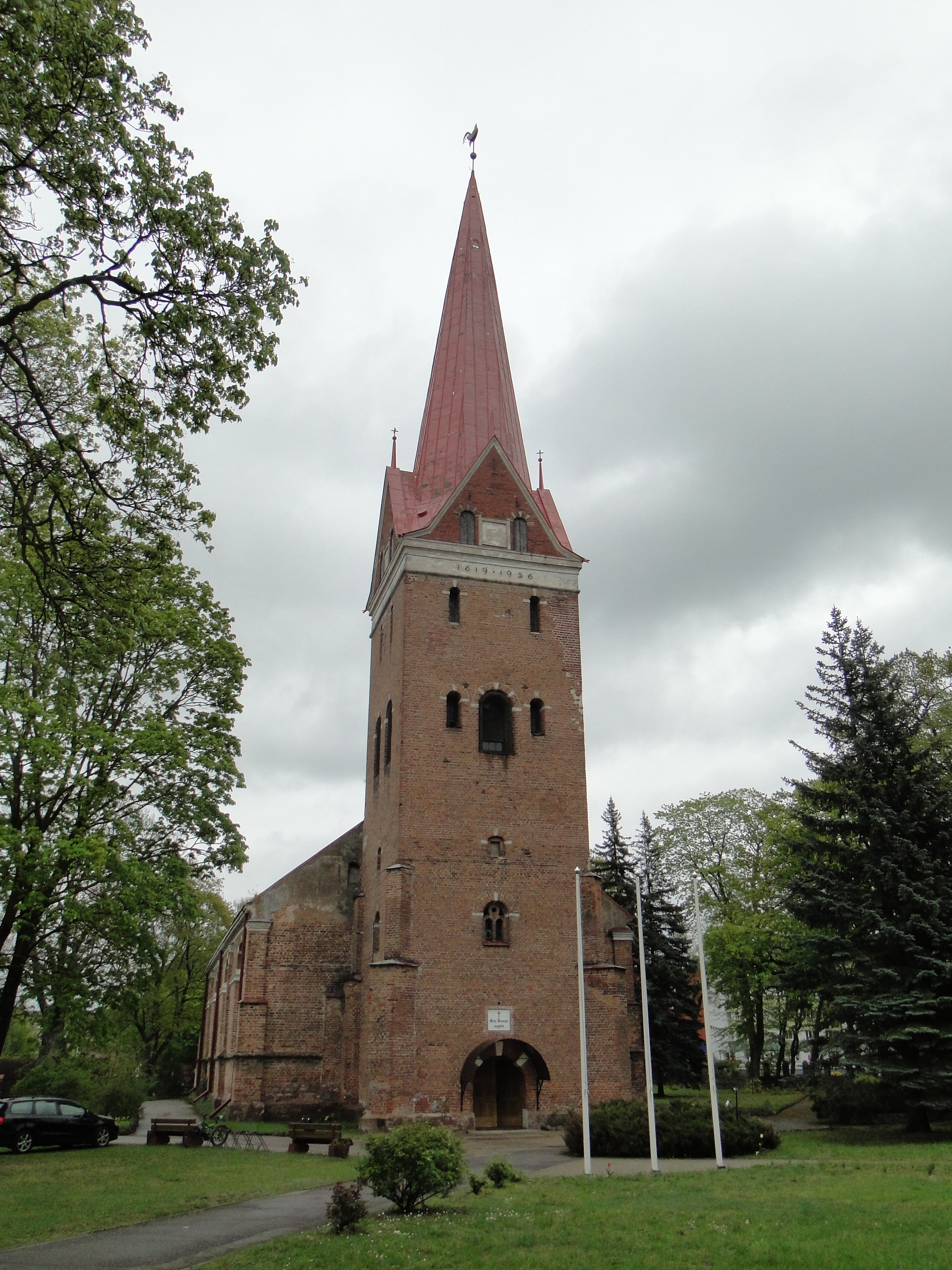 St. Anna church in Jelgava